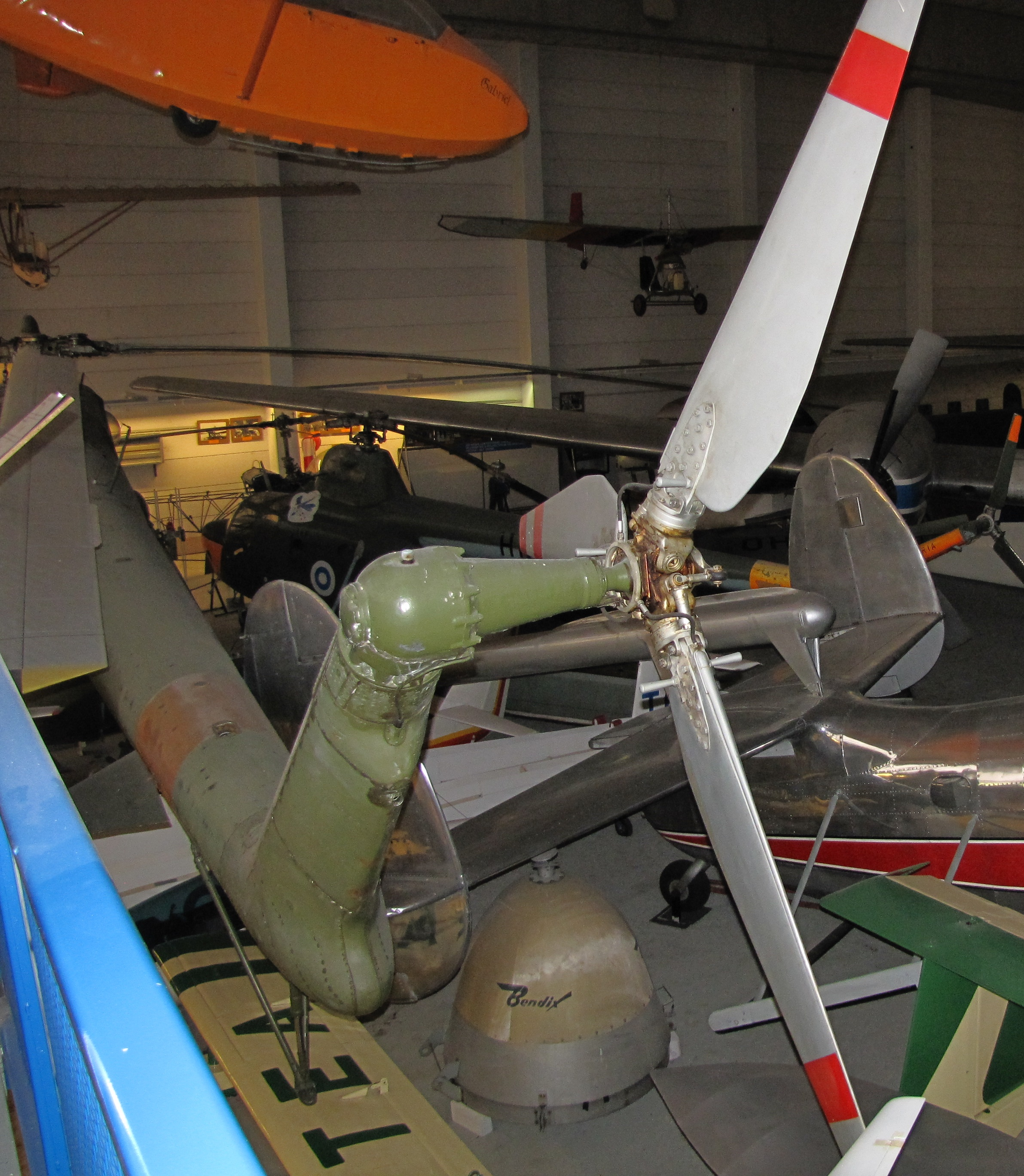 Tail rotor of Mil Mi-4 helicopter in Finnish Aviation Museum. Registry HR-3, used by Finnish Air Force between 1962-1979. Serial number 009114.